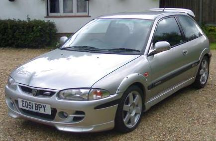 Proton Satria I took and uploaded the photo myself.